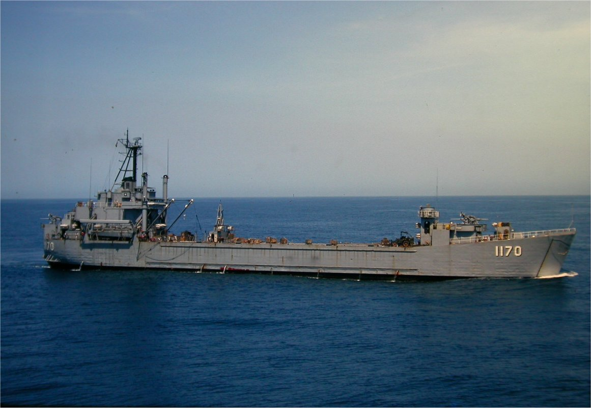 United States Navy landing ship tank USS Windham County (LST-1170) off the coast of South Vietnam ca. 1966